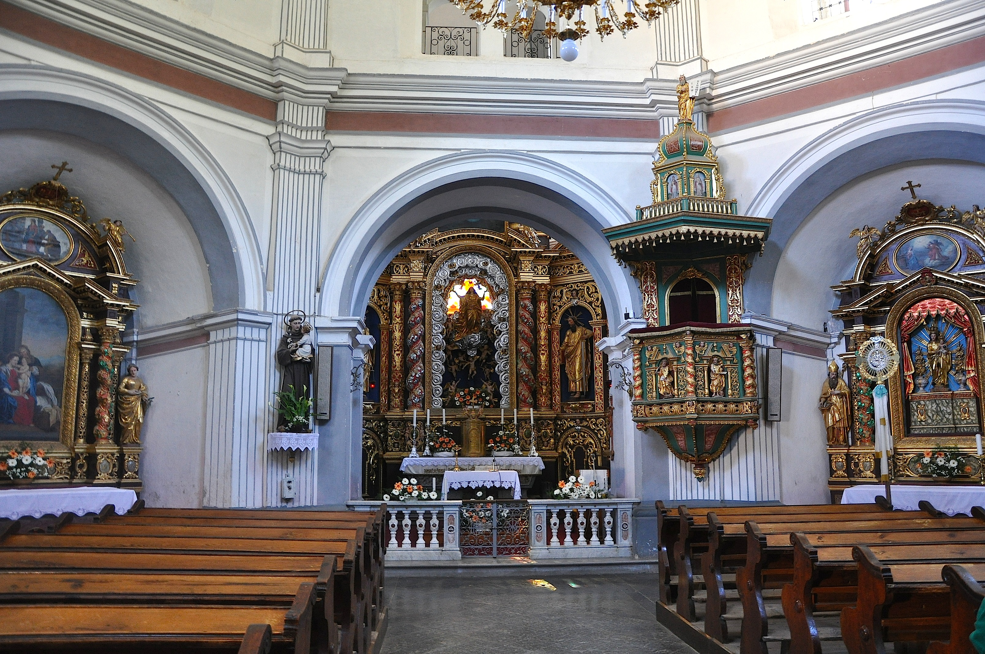 Nova Štifta church, Slovenia